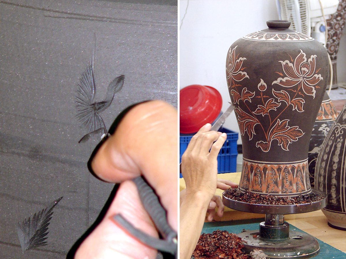 Celadon ceramic inlaid designs, known as "Sanggam" with the artisan engraving an inlaid design of a crane on the left and another artisan scraping off excess clay slip used to fill in the engravings on the right.